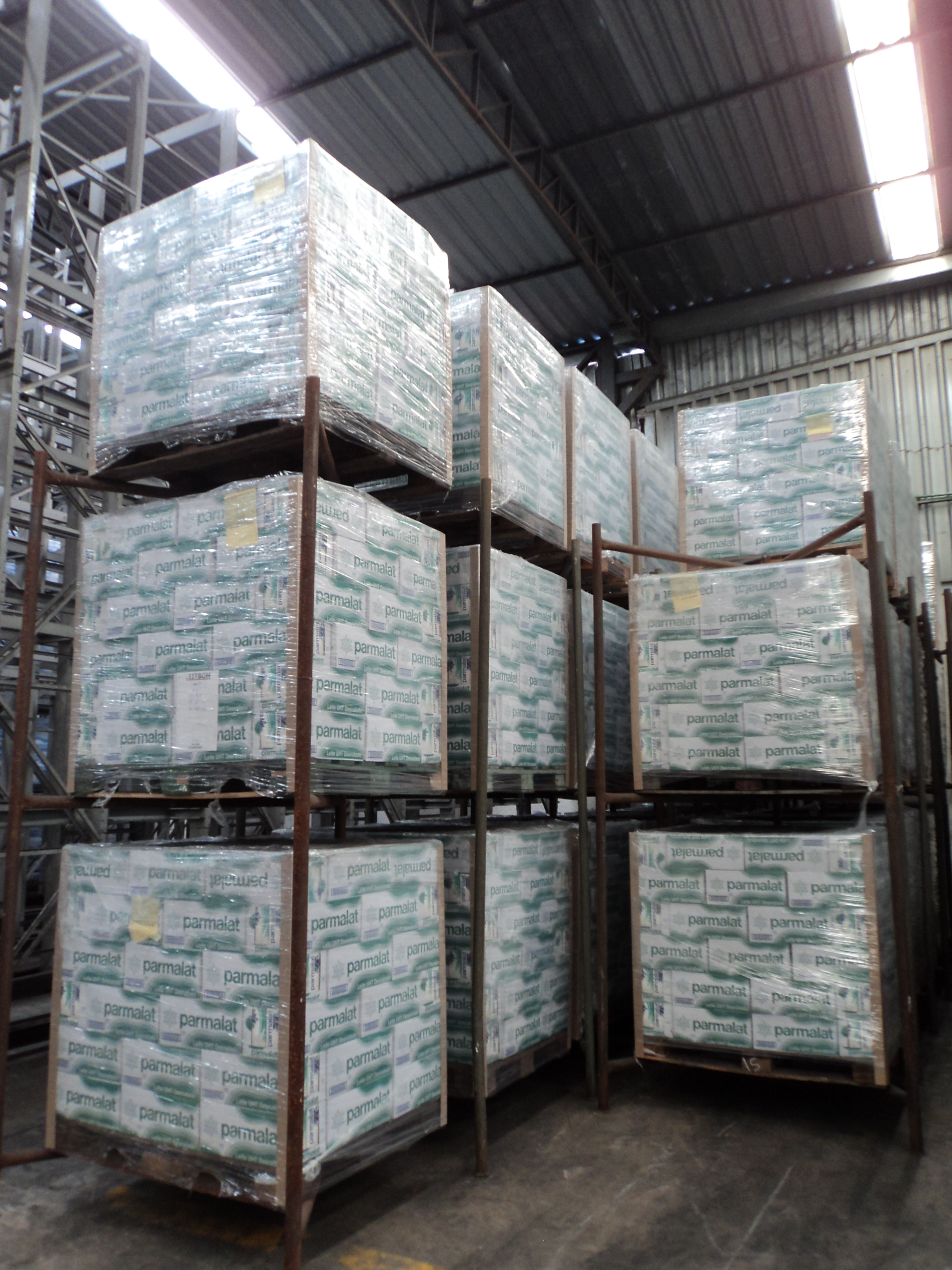 Milk cartons of the Parmalat in Governador Valadares, Minas Gerais, Brazil.